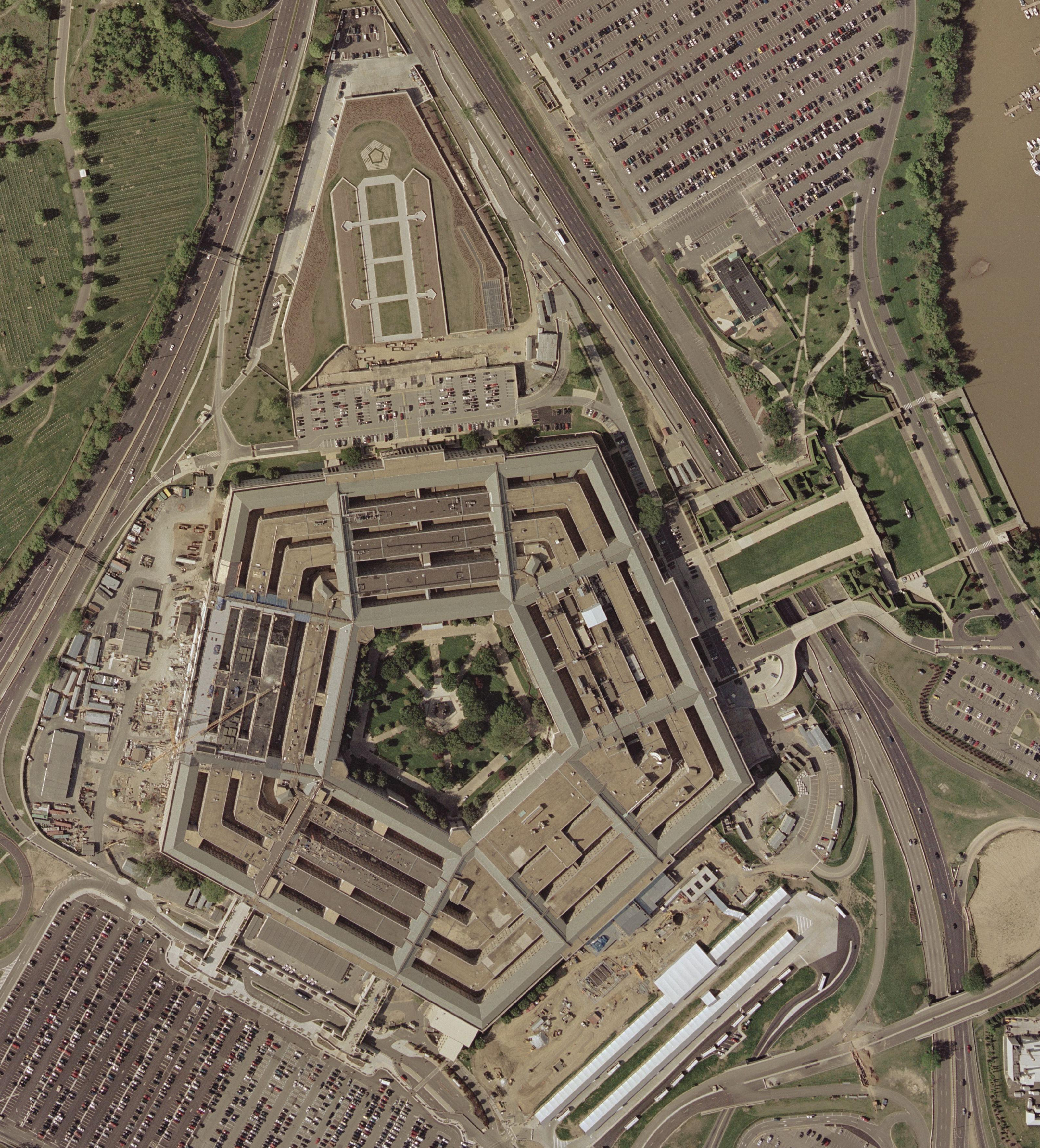 Aerial image of The Pentagon